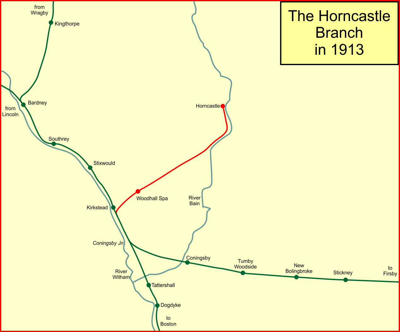 System map of the Horncastle railway branch line, Lincolnshire, England in 1913 (after opening of the Coningsby line)